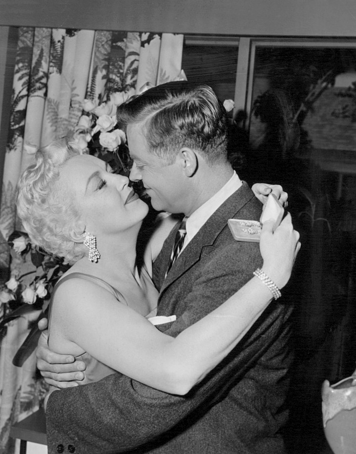 Photo of Betty Grable and Casey Adams from the Star Stage presentation of Cleopatra Collins. Adams' real name was Max Showalter; he worked under both names. The item has no copyright markings on it as can be seen in the links above.